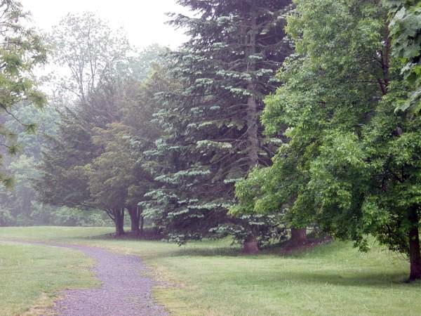 James Pass Arboretem - Pines and Conifers